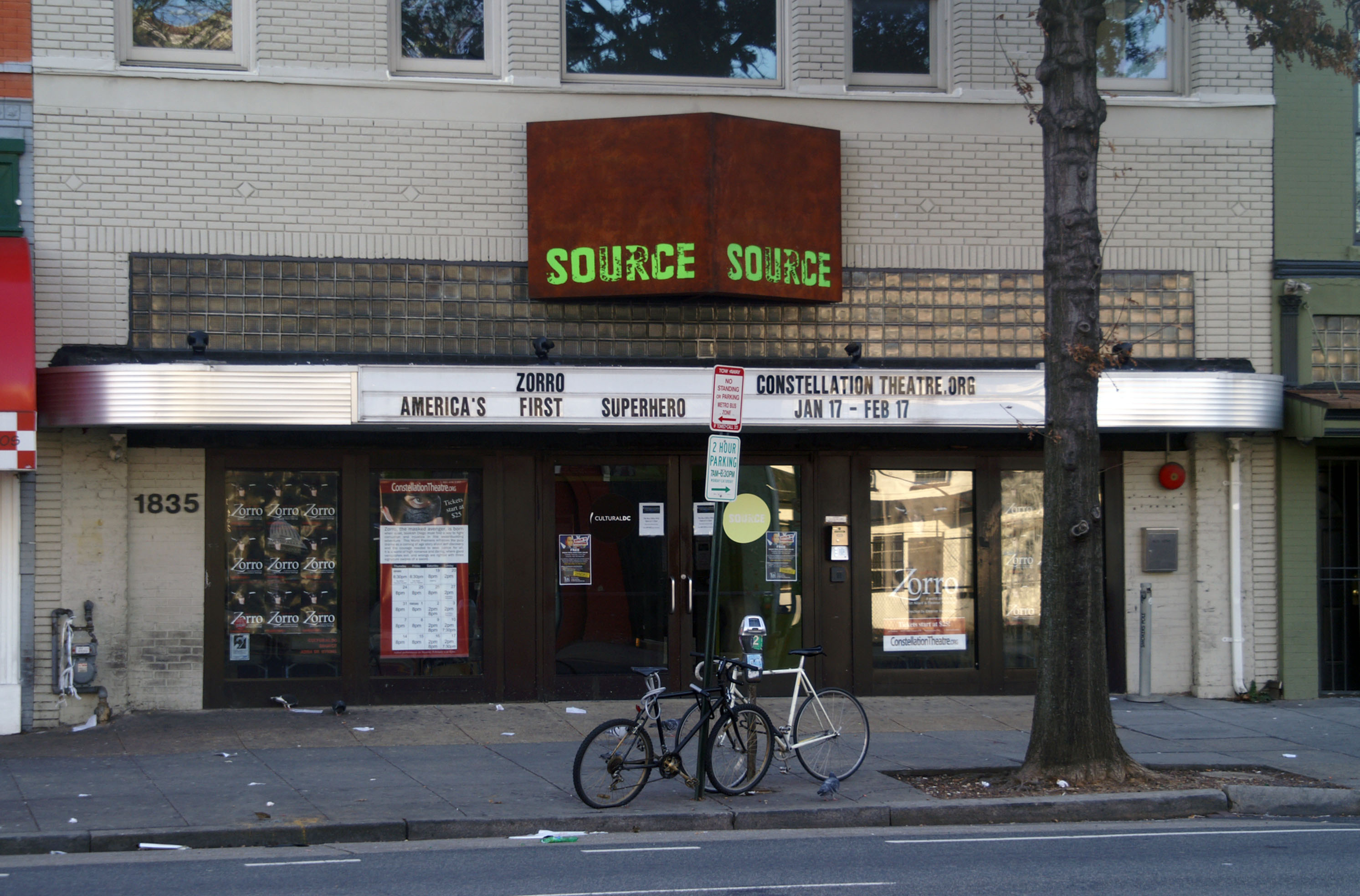 The Source Theater in Washington DC during the run of "Zorro" produced by the Constellation Theatre Company. The theater is owned and managed by CulturalDC. The Constellation Theatre Company is a Resident Company at Source.